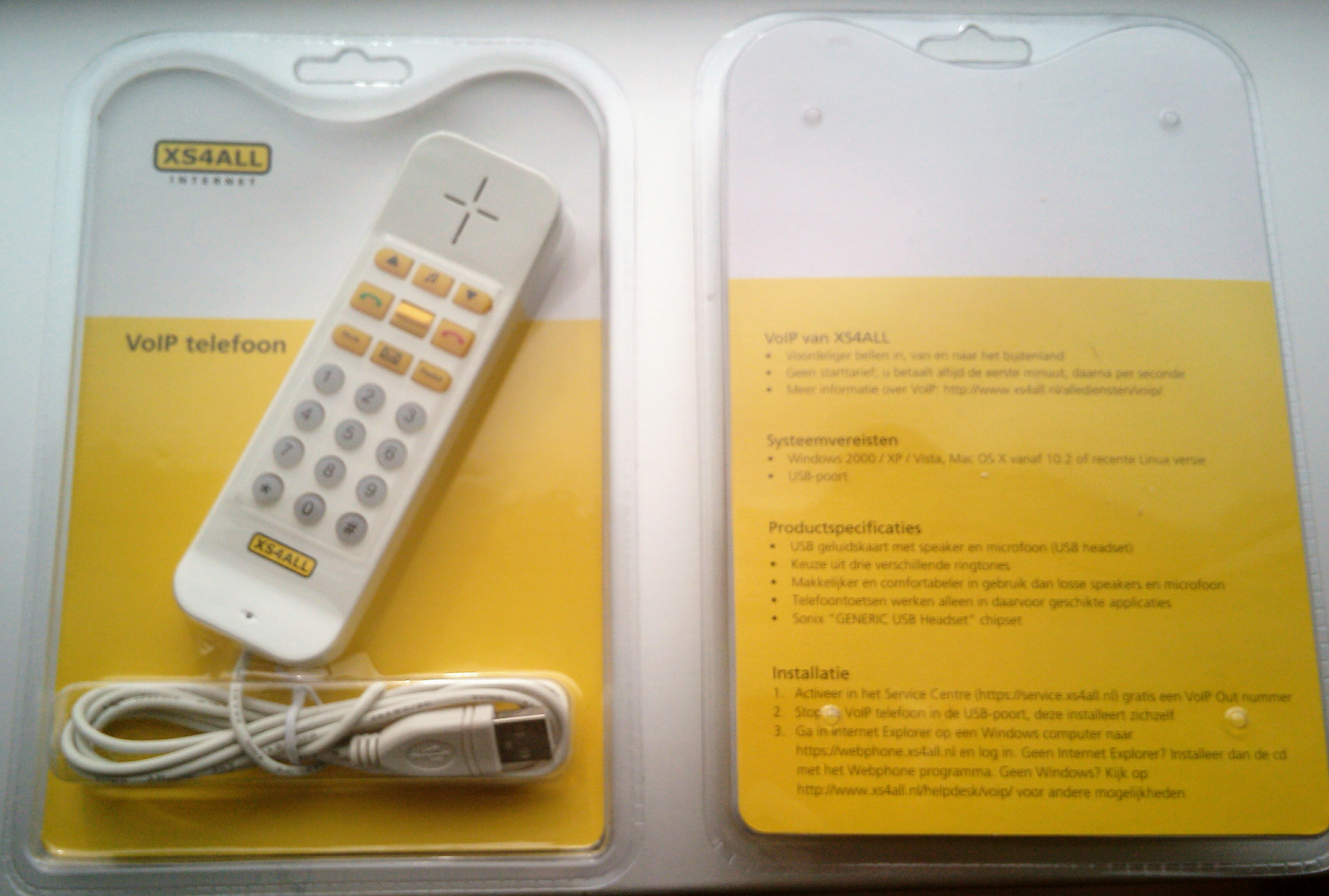 This is the first usb Web-based VoIP phone that was made in 2005 by XS4ALL Internet BV, by its hardware designer Donar Alofs. It worked by browsing to the website and than you could receive and make phone calls.